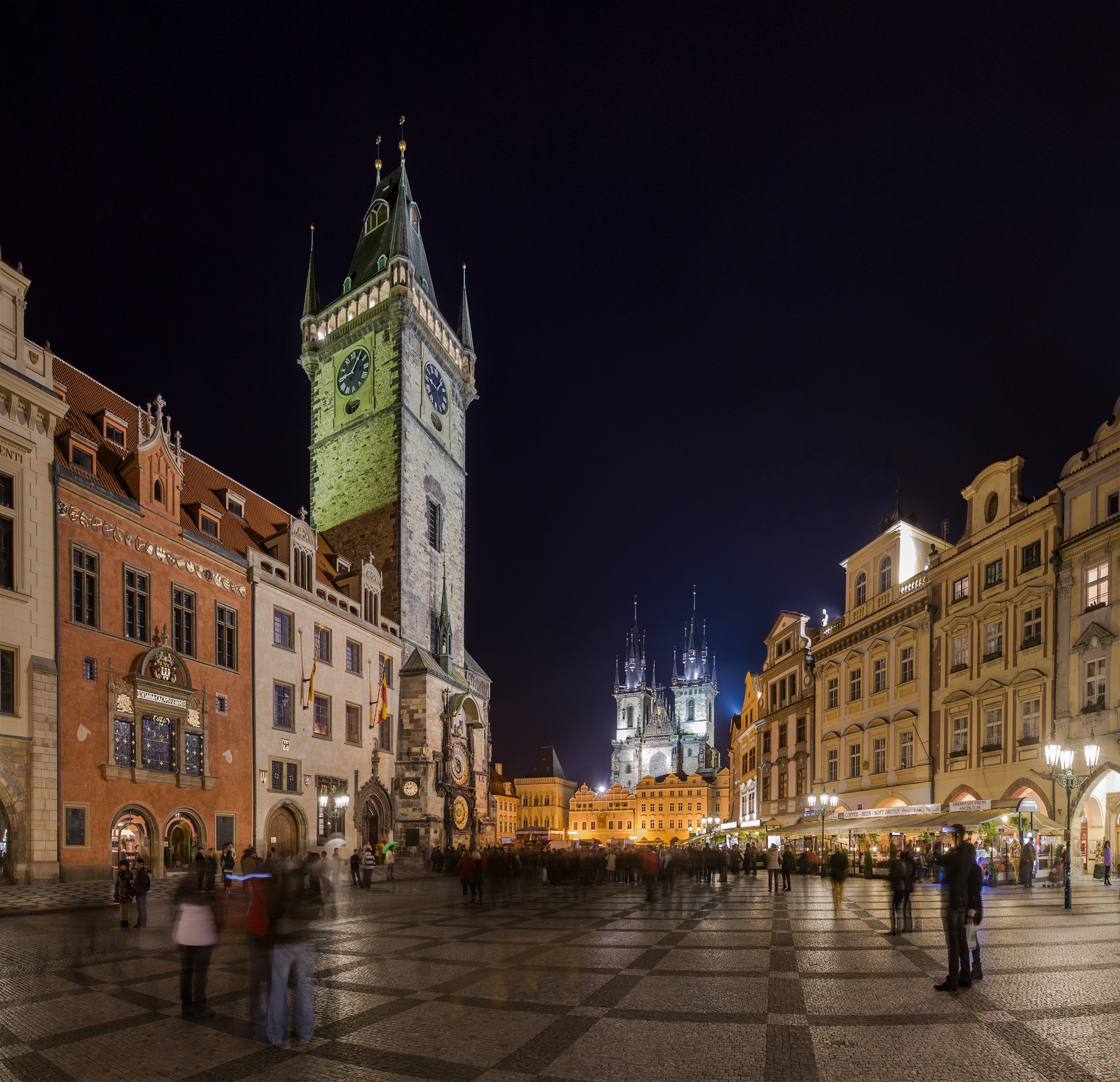 A wide view of the Old Town Square in Prague, Czech Republic. This is a 4 segment panorama.